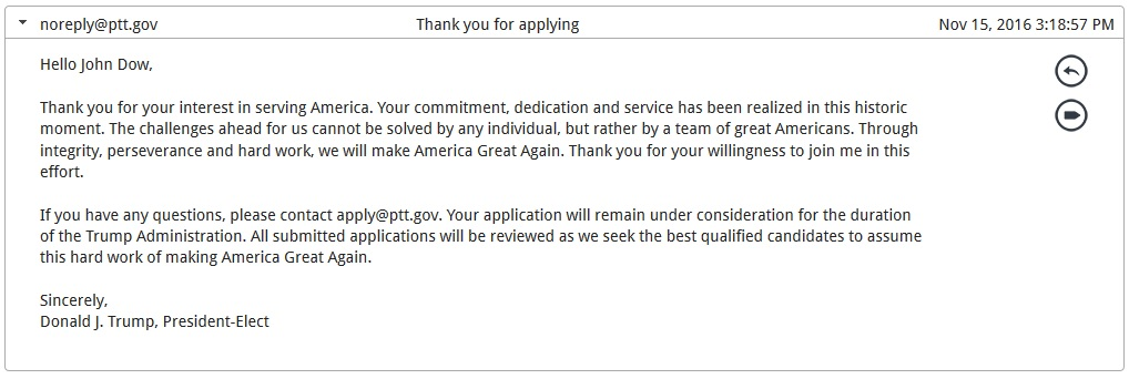 confirmation email which was sent to applicants applying for political appointments via in November 2016